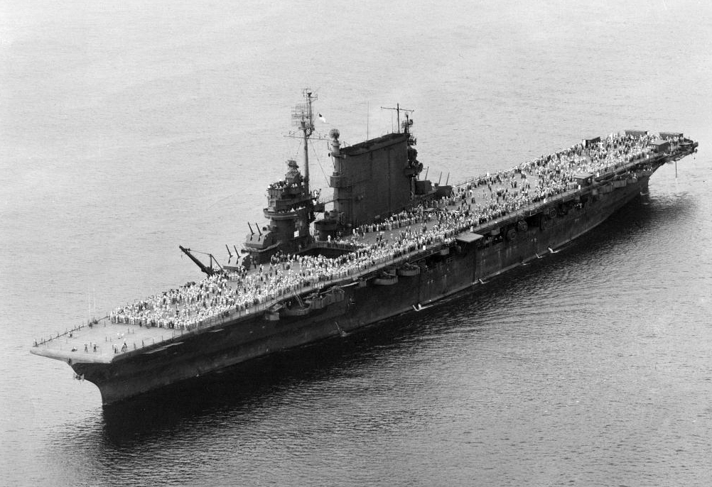 The U.S. Navy aircraft carrier USS Saratoga (CV-3) during her last run as a troop transport in operation "Magic Carpet". Original caption: "The USS Saratoga (CV-3) enroute to the States with about 30,000 veterans aboard. This is her last trip as a transport." Note: Of course, the carrier could not accommodate 30,000 people at once. By the end of her "Magic Carpet" service, Saratoga had brought home a total of 29,204 Pacific war veterans, more than any other individual ship.